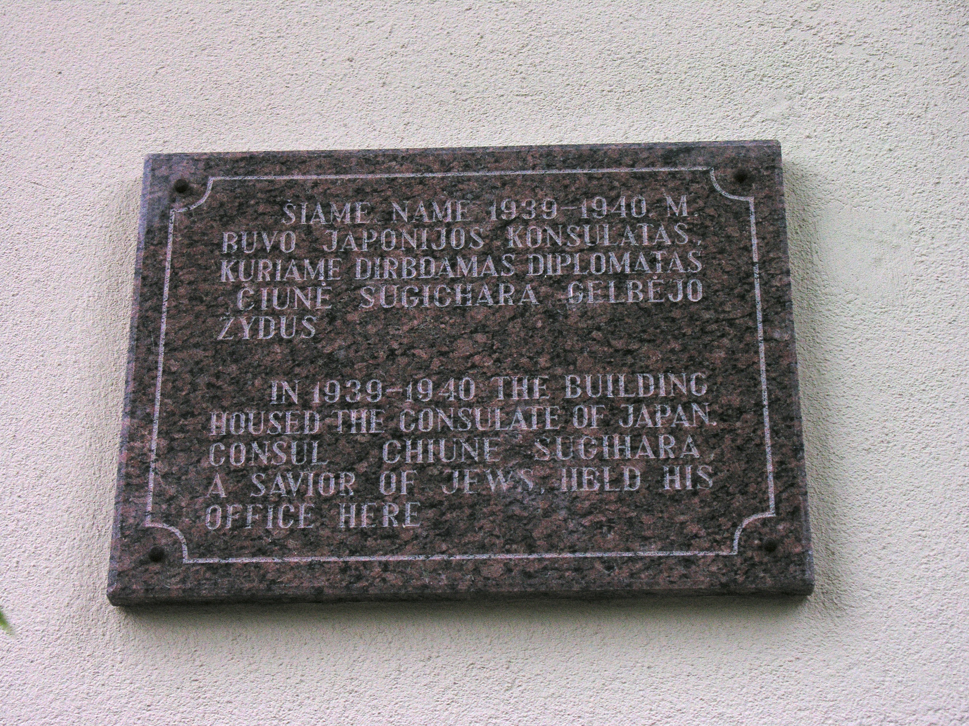 Sugihara plaque on the building of the former Japanese consulate in Kaunas.